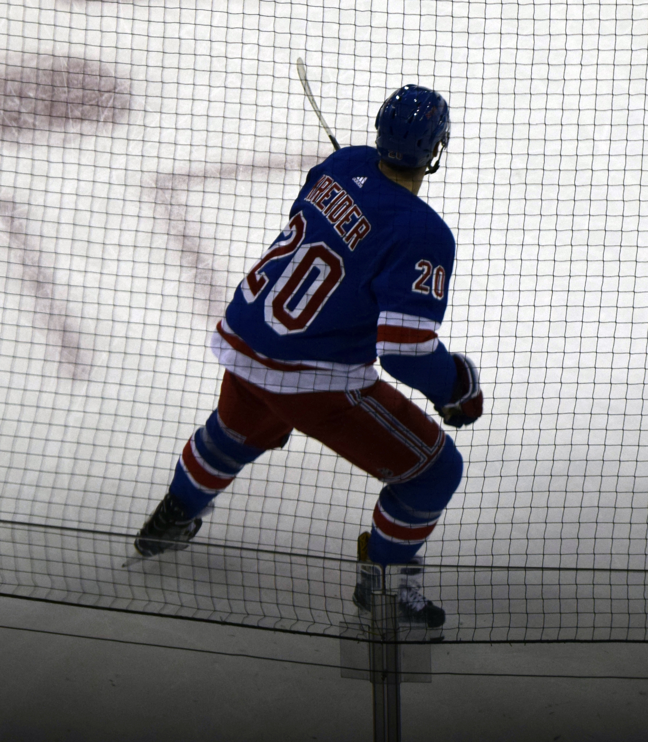 Rangers 1 Caps 1